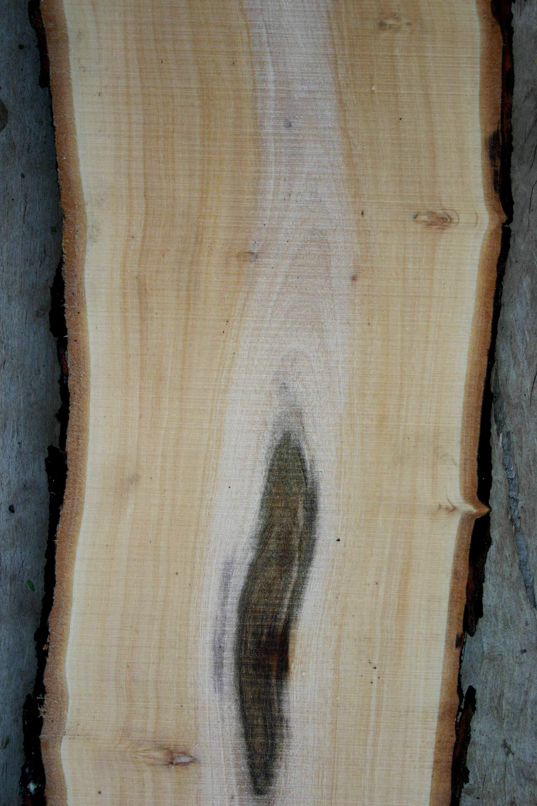 Freshly-cut plank of Peltophorum africanum from cultivated tree - Honeydew, Johannesburg